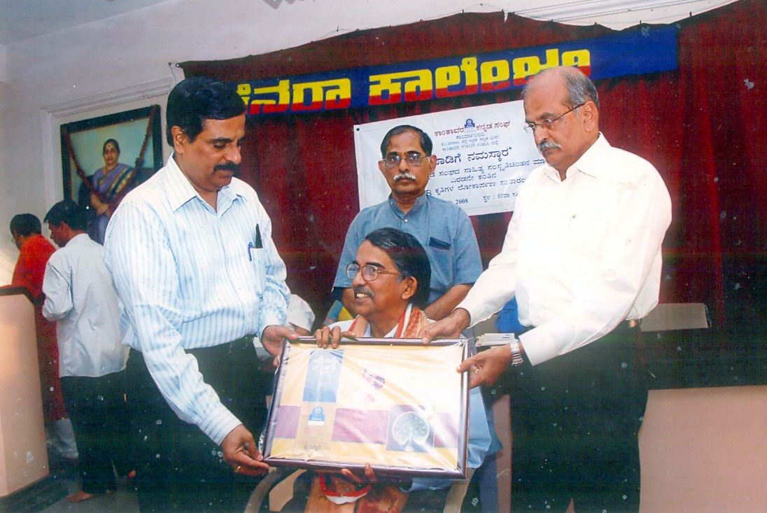 N D Shetty 6